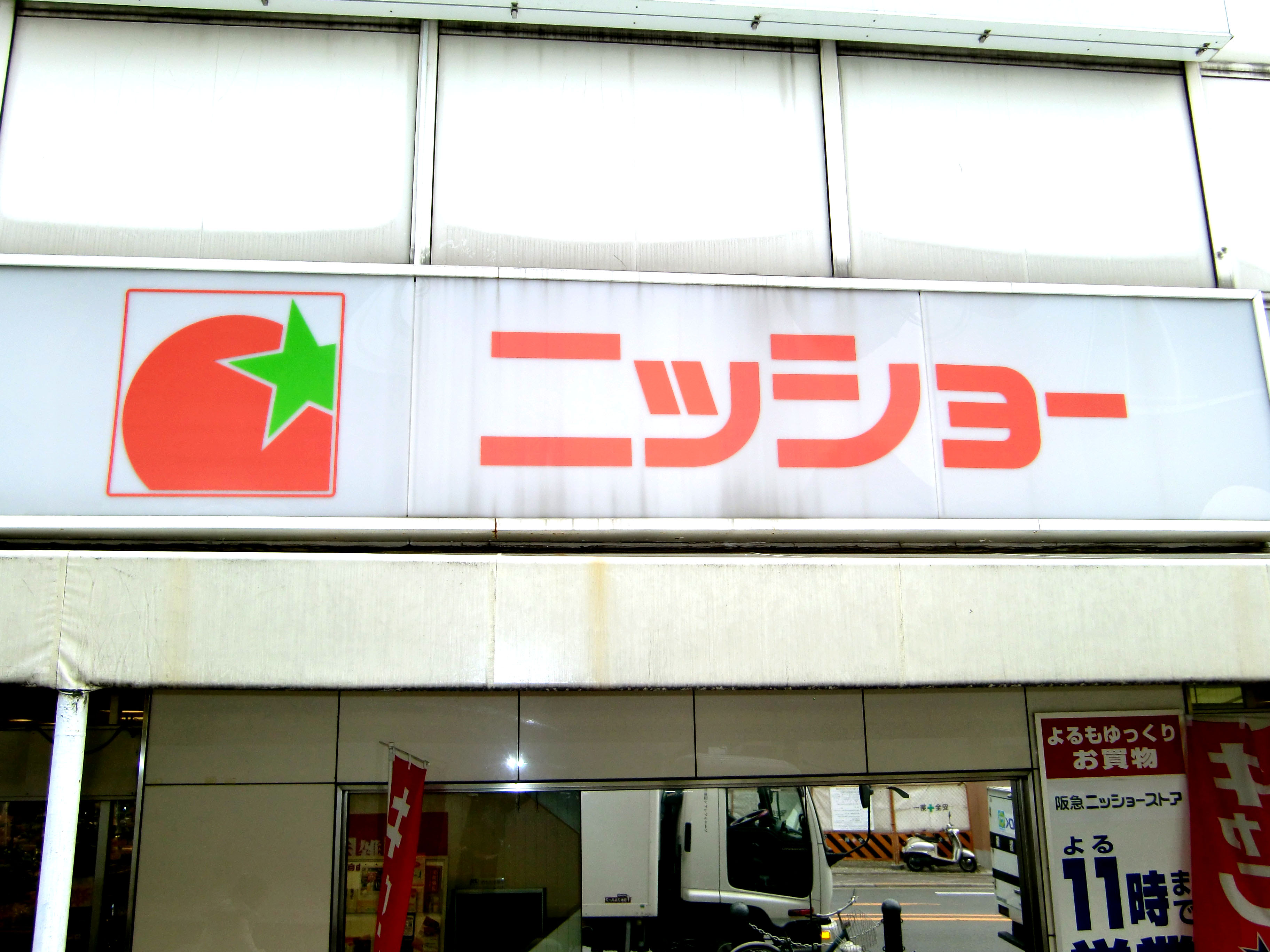 Hankyu Nissho Store Senbon,Sembondori-Shimochojamachi Kamigyo-ku Kyoto-City JAPAN.